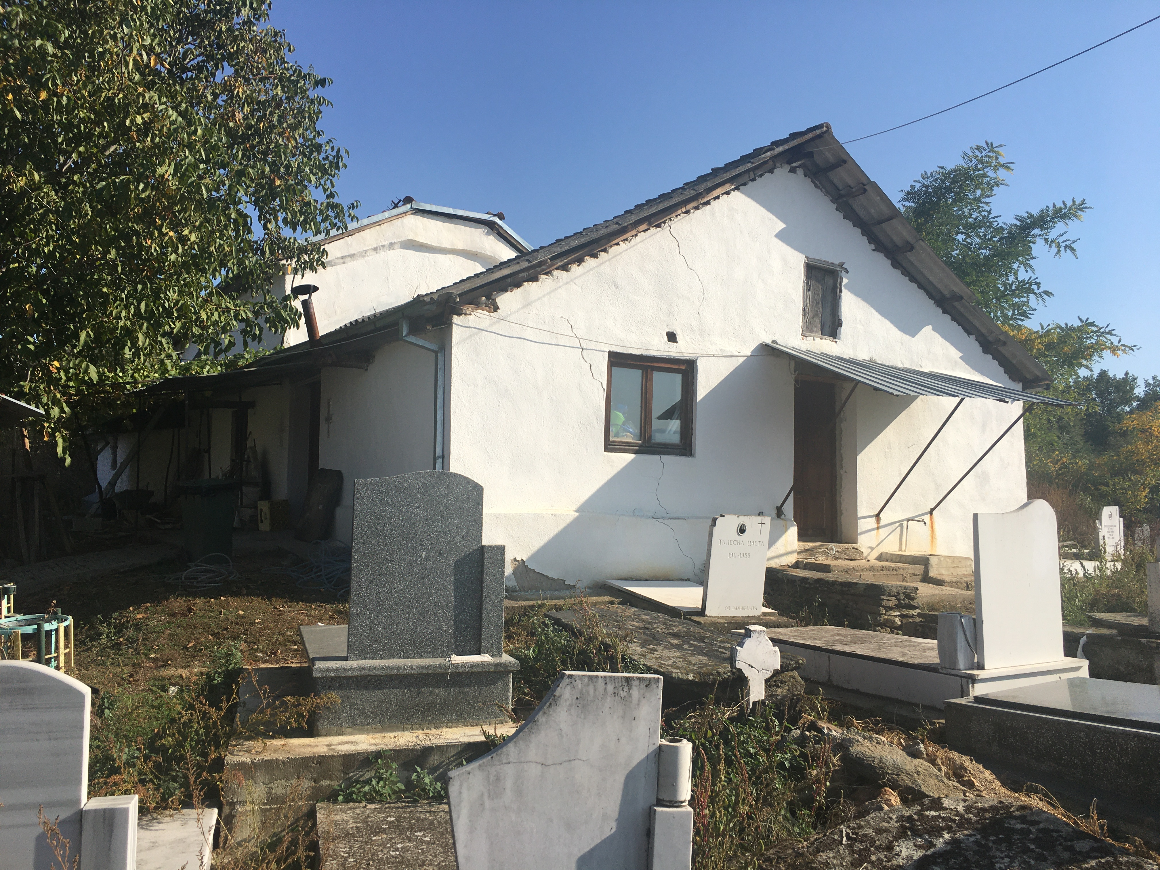 The secondary building of St. Nicholas Church in the village of Belo Pole